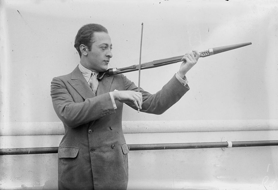 Jascha Heifetz playing a walking stick violin.